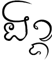 Lanna script – Fang is a district (amphoe) in the northern part of Chiang Mai Province, northern Thailand.